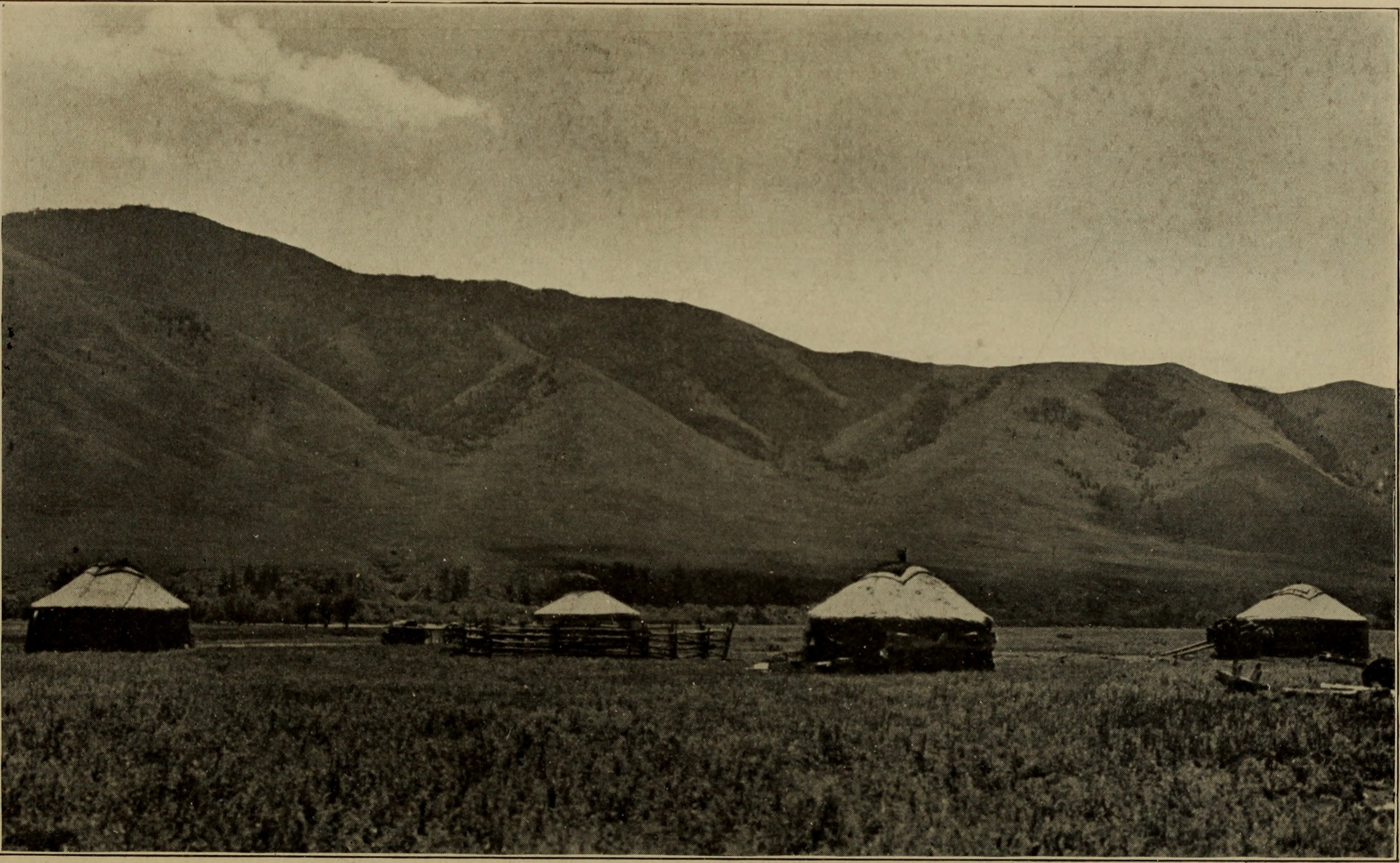 Title: Across Mongolian plains; a naturalist's account of China's "great northwest", by Roy Chapman Andrews ... photographs by Yvette Borup Andrews .. Year: 1921 (1920s) Authors: Andrews, Roy Chapman, 1884-1960 Subjects: Zoology; Hunting Publisher: New York, London, D. Appleton and company Text Appearing Before Image: ! Text Appearing After Image: '